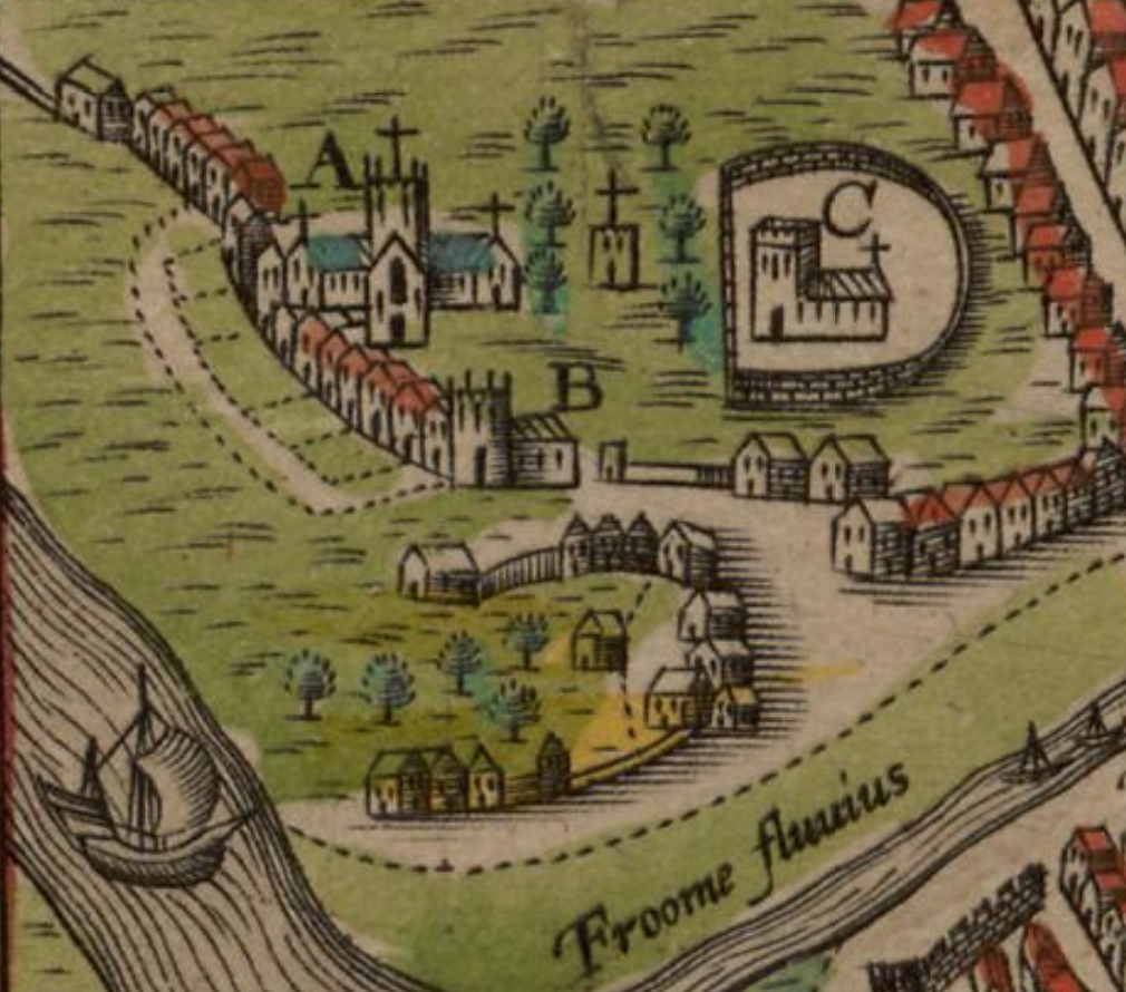 Close-up of John Speed's map from 1610 showing the building that had previously been the chapel of St. Jordan, located between Bristol Cathedral (A) on the left and St. Mark's Church (C) on the right.